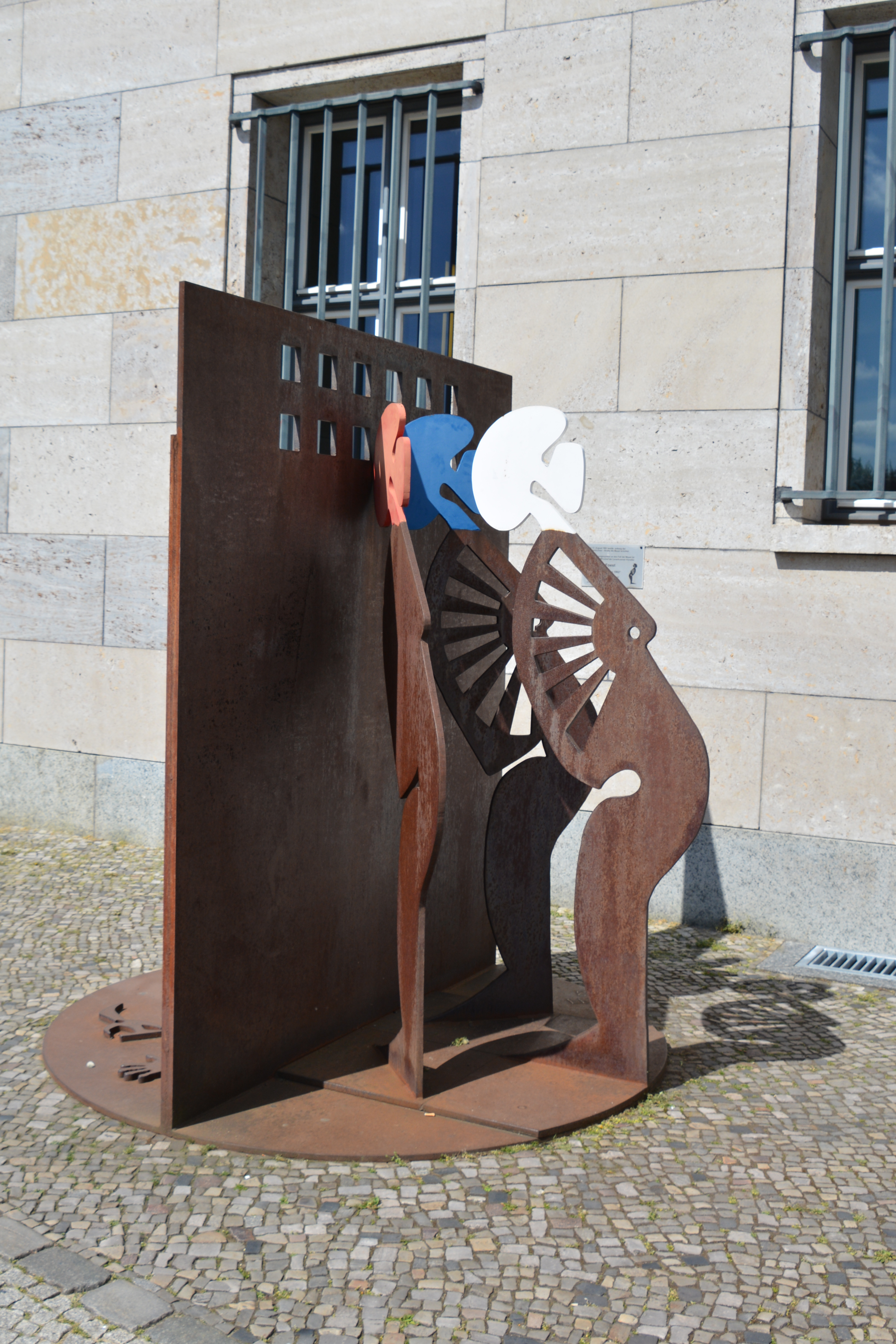 Mauerstuck 2, sculpture by Eberhard Foest, corten steel, outside Bundesfinzministerium, Niederkirchnerstrasse, Berlin